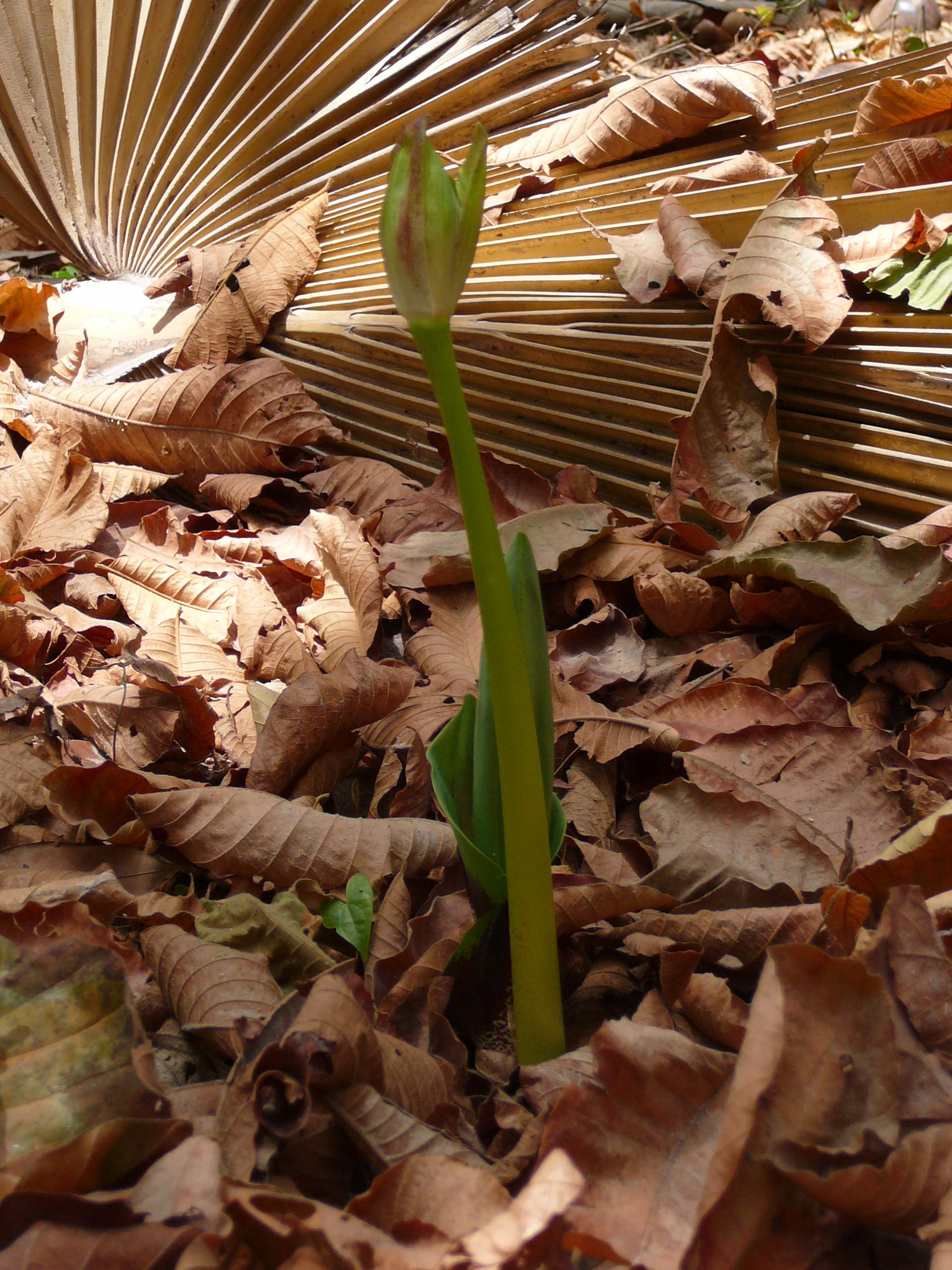 Fireball lily or Blood lily